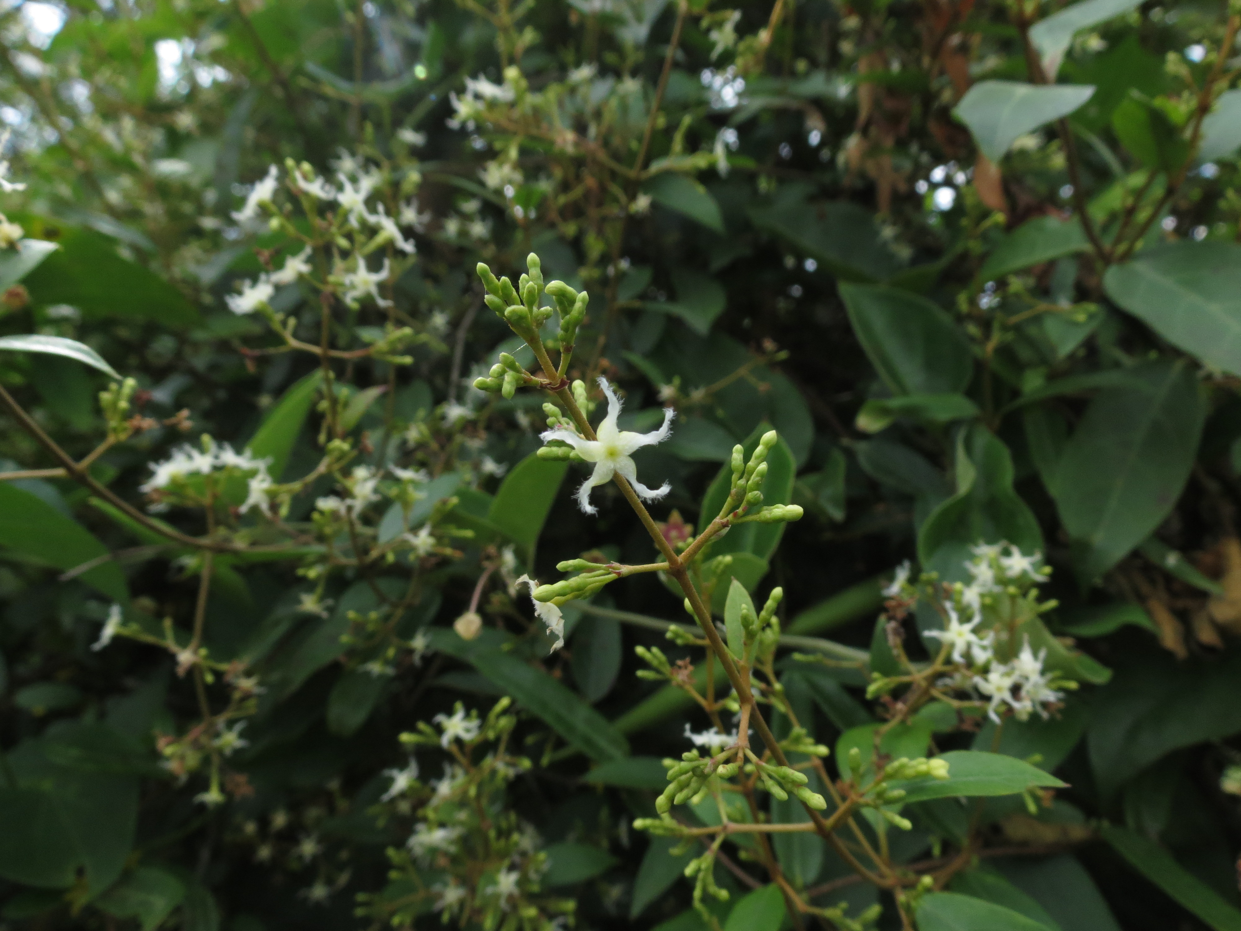 Ichnocarpus frutescens seen in valley school bangalore